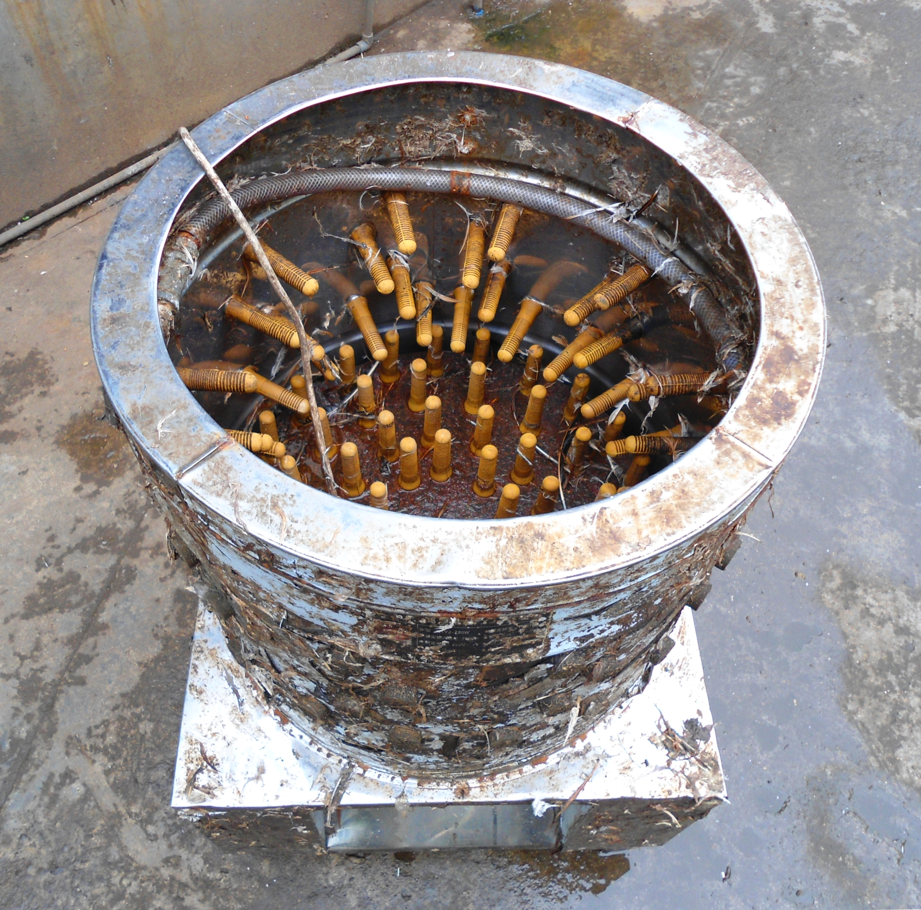 Poultry plucking machine. This machine stands around 1 metre high and is electrically operated. Rubber posts project inward to pluck the bird while it tumbles about within the spinning drum. This image was taken at the back of an urban market, by the live poultry area (common in such markets, in Haikou, Hainan Province, People's Republic of China.